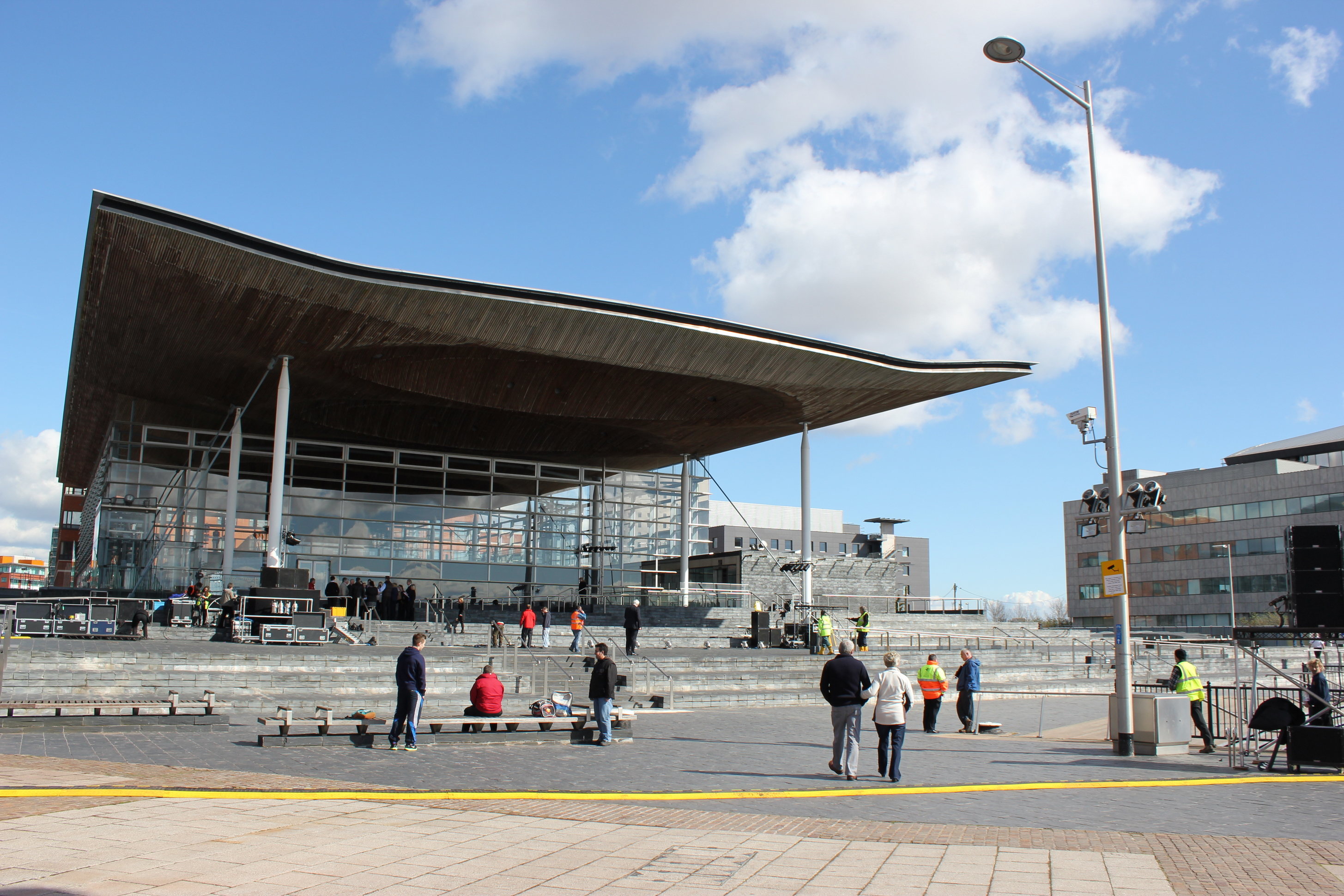 Exterior view of the Senedd, where the Welsh parliament resides.